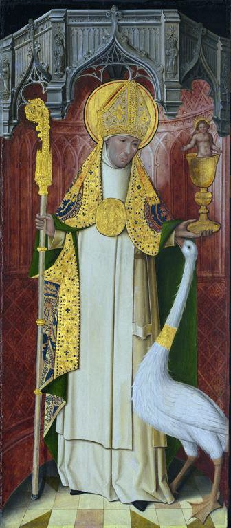 Altarpiece from the Carthusian monastery of Saint-Honoré, Thuison-les-Abbeville, France, depicting Saint Hugh of Lincoln with his swan